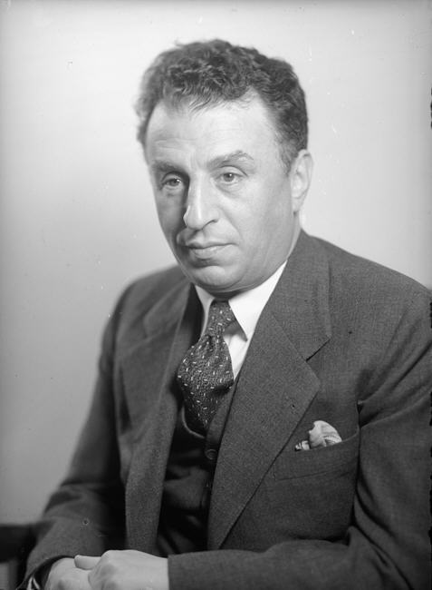 Dr. Granot on for his 50th birthday.